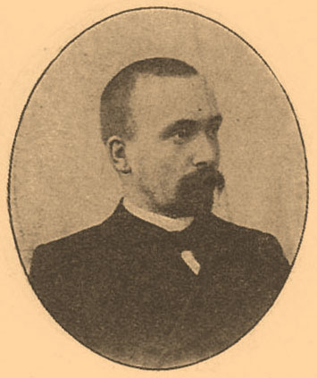 Illustration from Brockhaus and Efron Encyclopedic Dictionary (1890—1907)